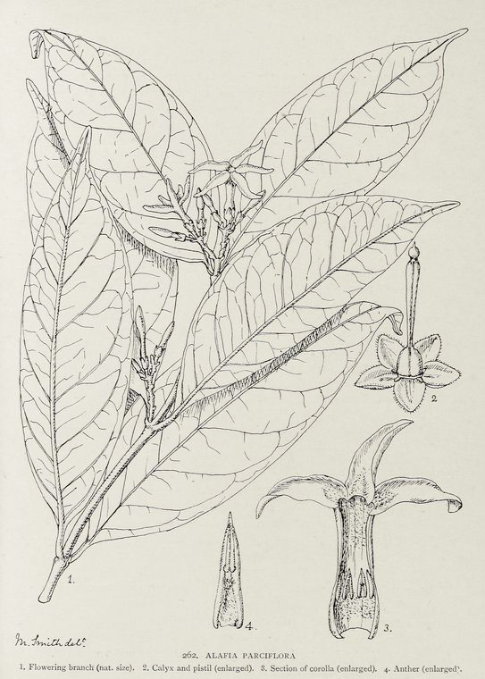 Alafia parciflora. 1. Flowering branch (nat. size). ; 2. Calyx and pistil (enlarged). ; 3. Section of corolla (enlarged). ; 4. Anther (enlarged).